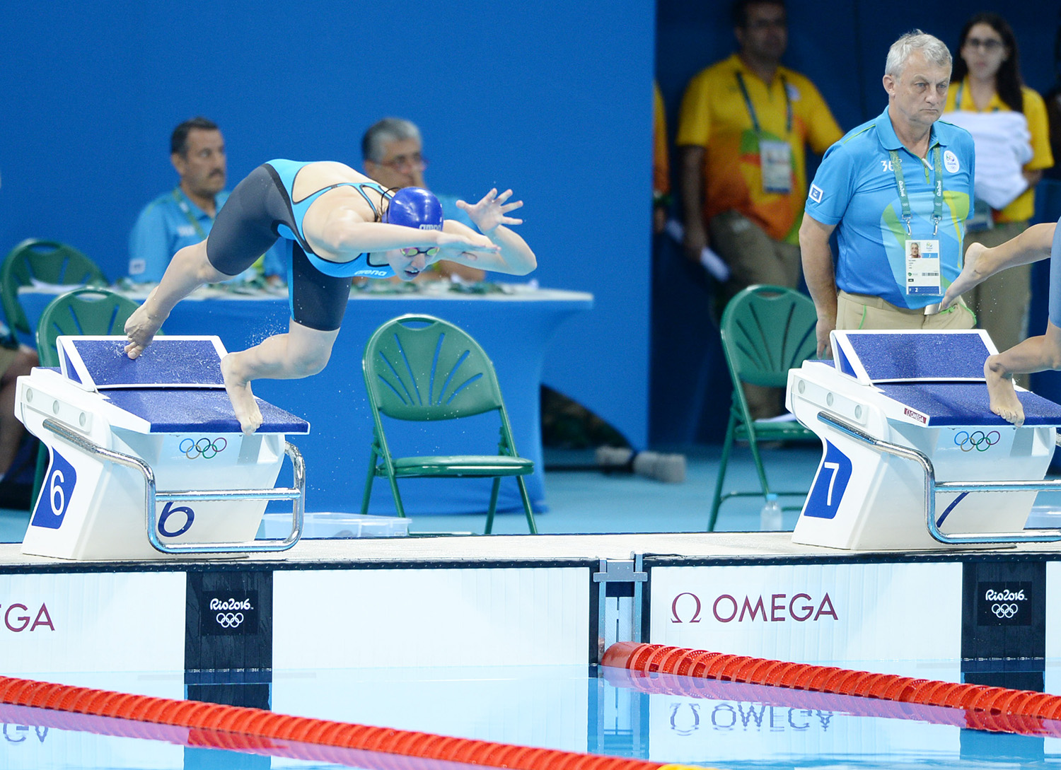 Swimming at the 2016 Summer Olympics – Women's 100 metre freestyle, Alkaramova